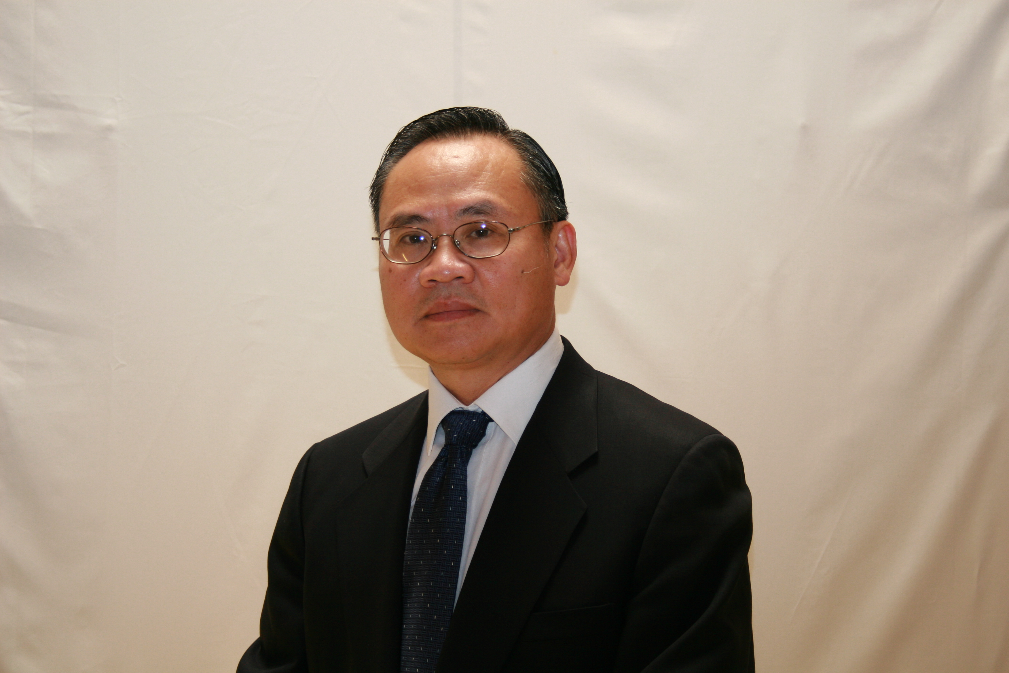 Picture of Ly Thai Hung, General Secretary of the Vietnam Reform Party